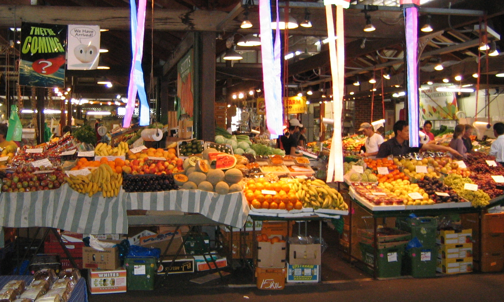 Fruit and vegetables, Fremantle Markets, Fremantle, Western Australia.